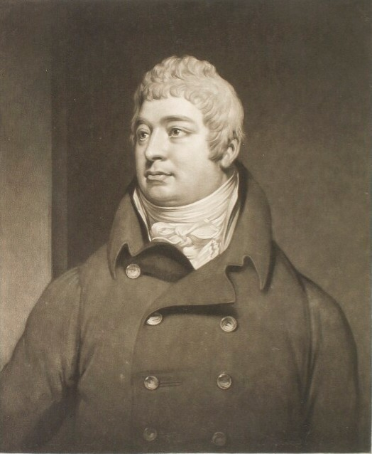 Portrait of Sir Berkeley Guise, 2nd Baronet (1775–1834), British landowner and politician.